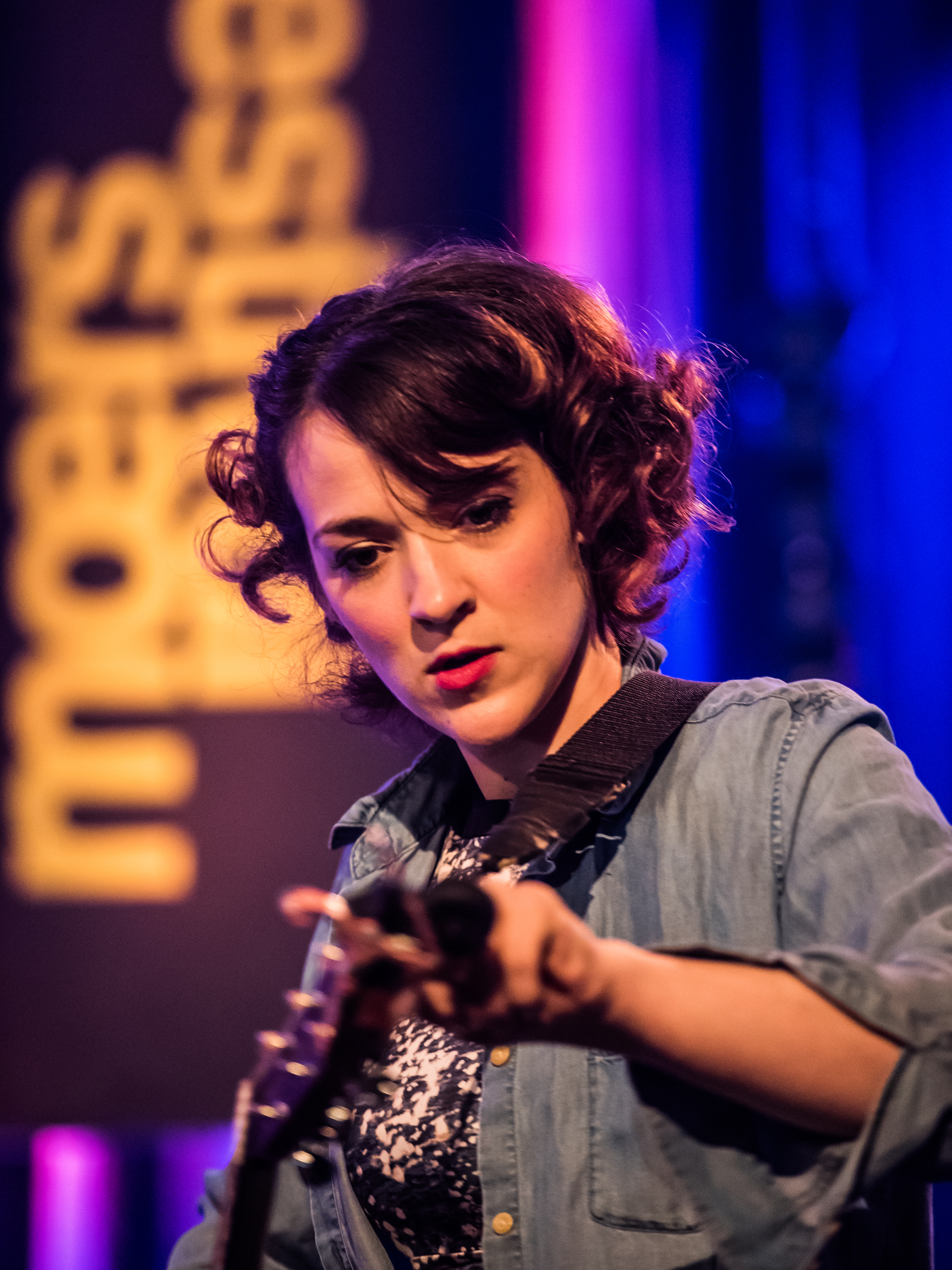 US-American musician Becca Stevens at the Moers Festival 2016